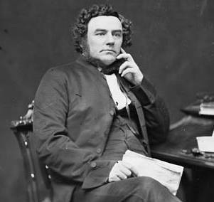 McDonald, Donald Hon. Senator b. 1816 - d. Jan. 21, 1879